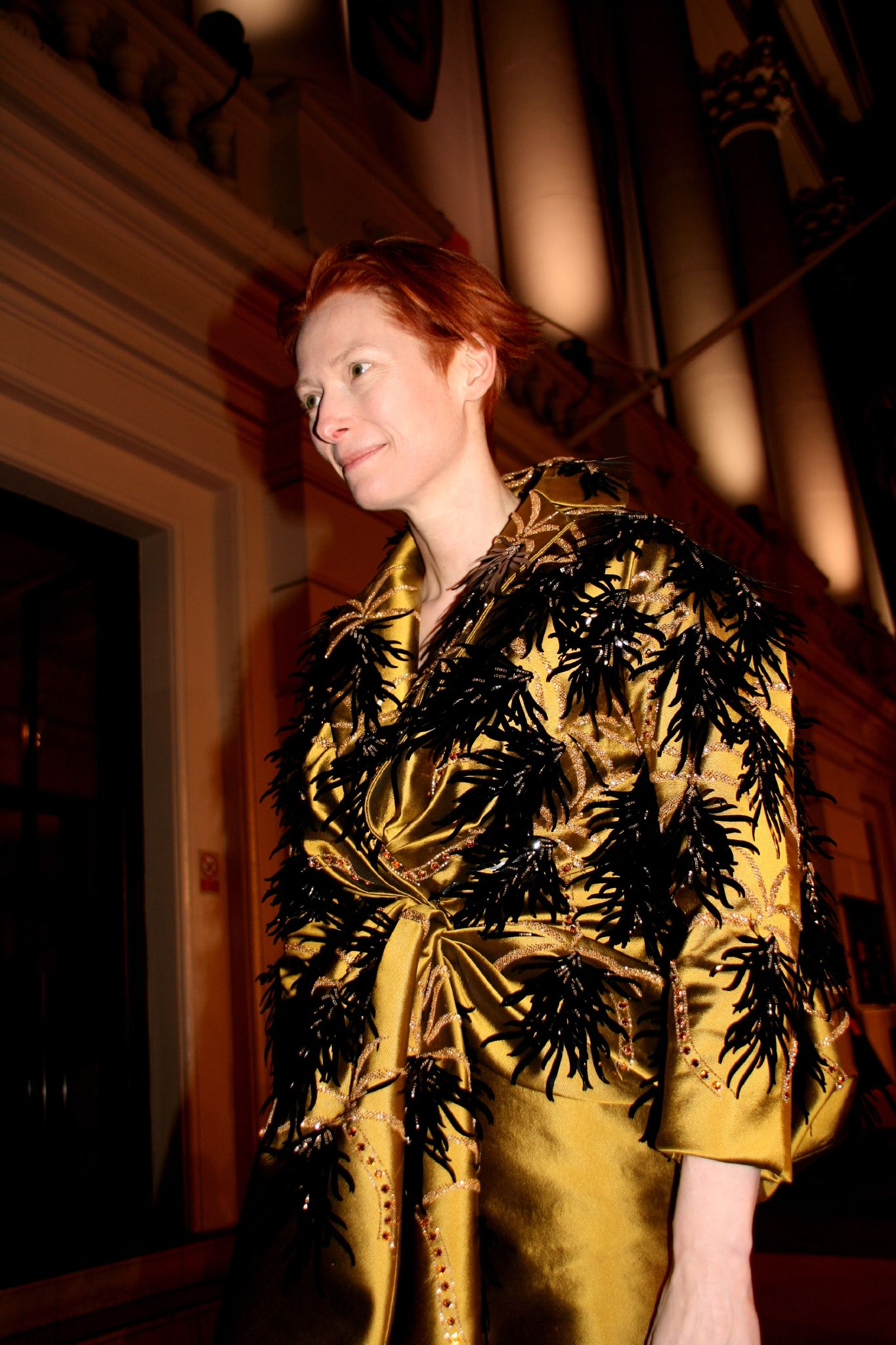 Tilda Swinton at the 2008 BAFTAs.